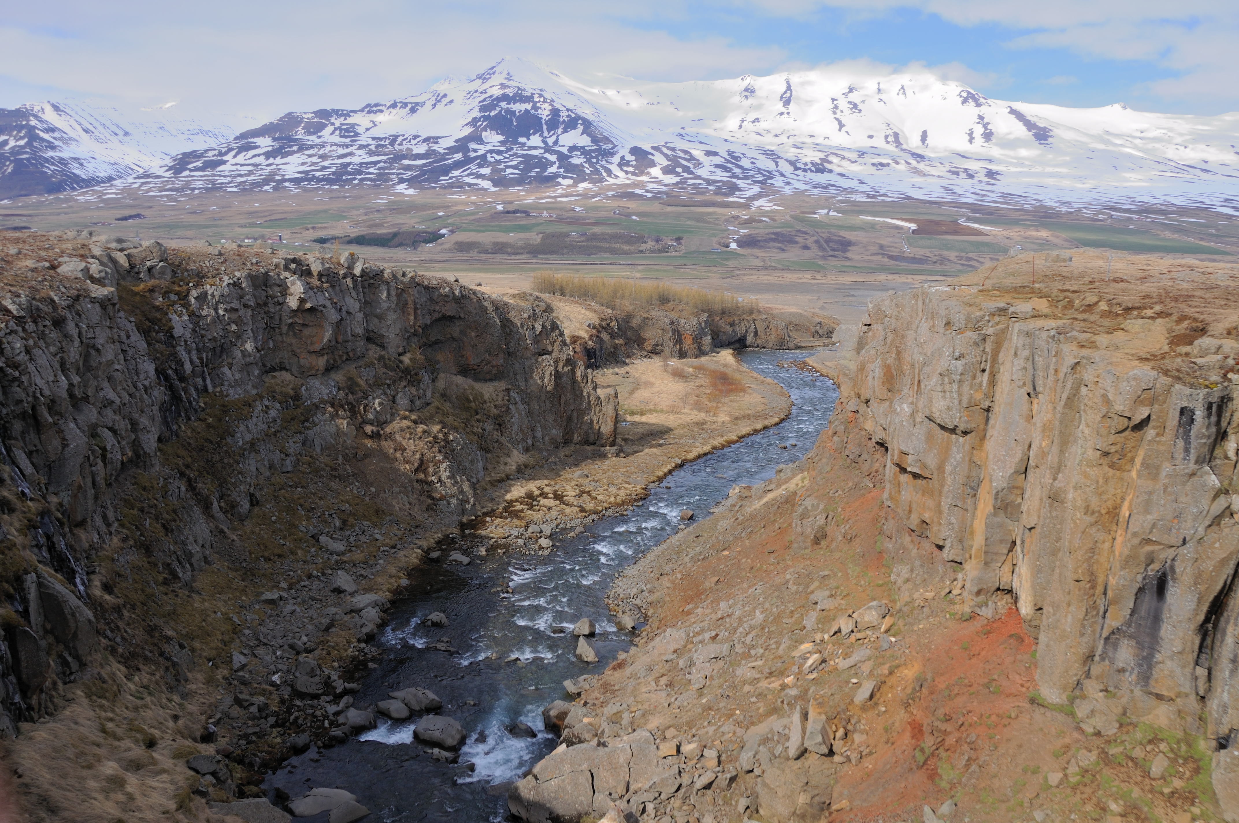 Iceland , view from the bridge of raod 829 across Þverá efri